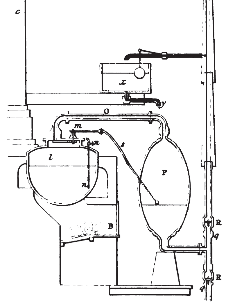 Savery Steam Engine, side view